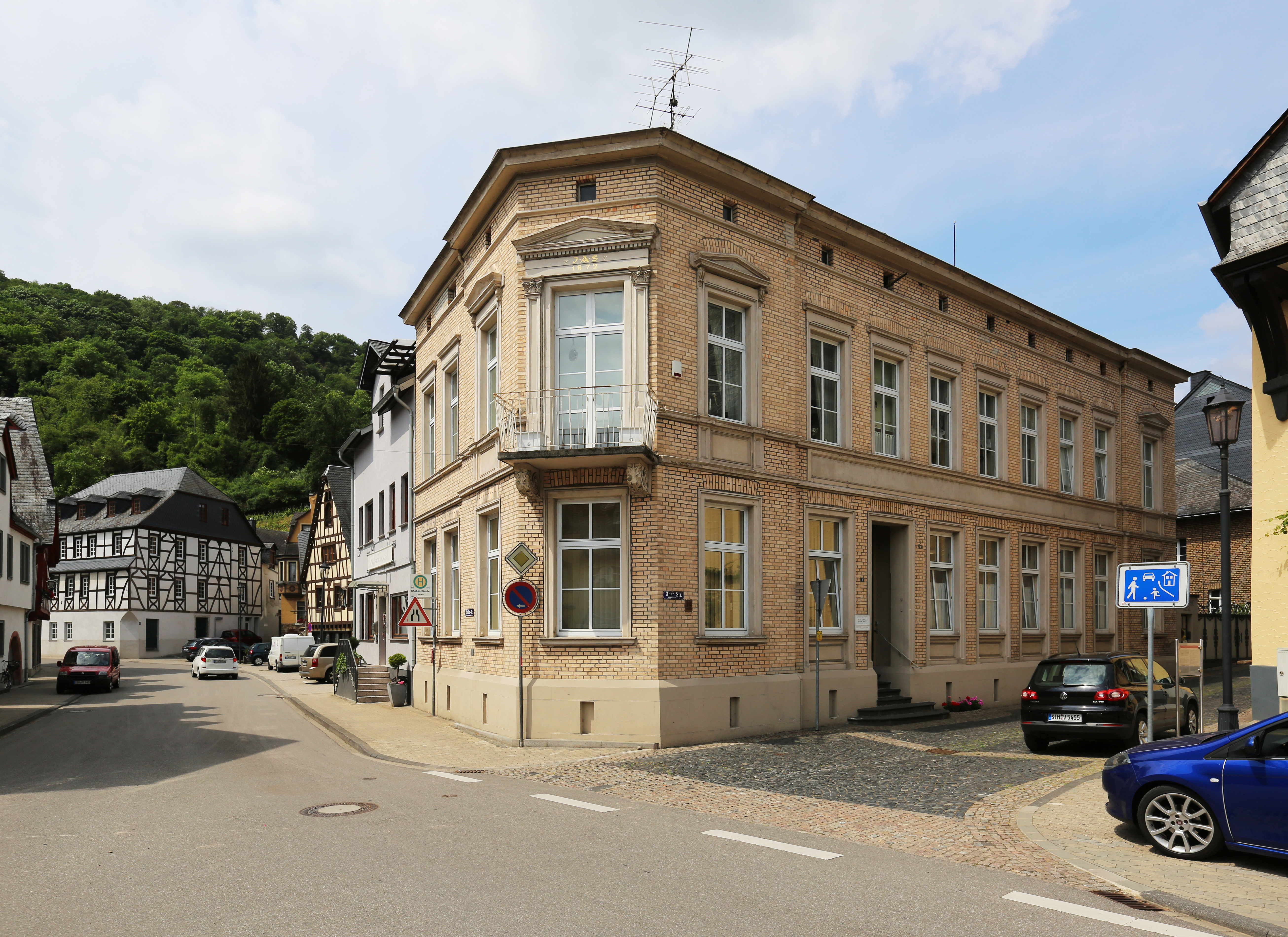 Cultural heritage monuments in Oberwesel, Rhine Valley/Germany